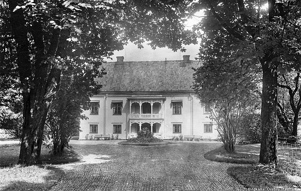 The manor Hjärsta, Örebro, Sweden